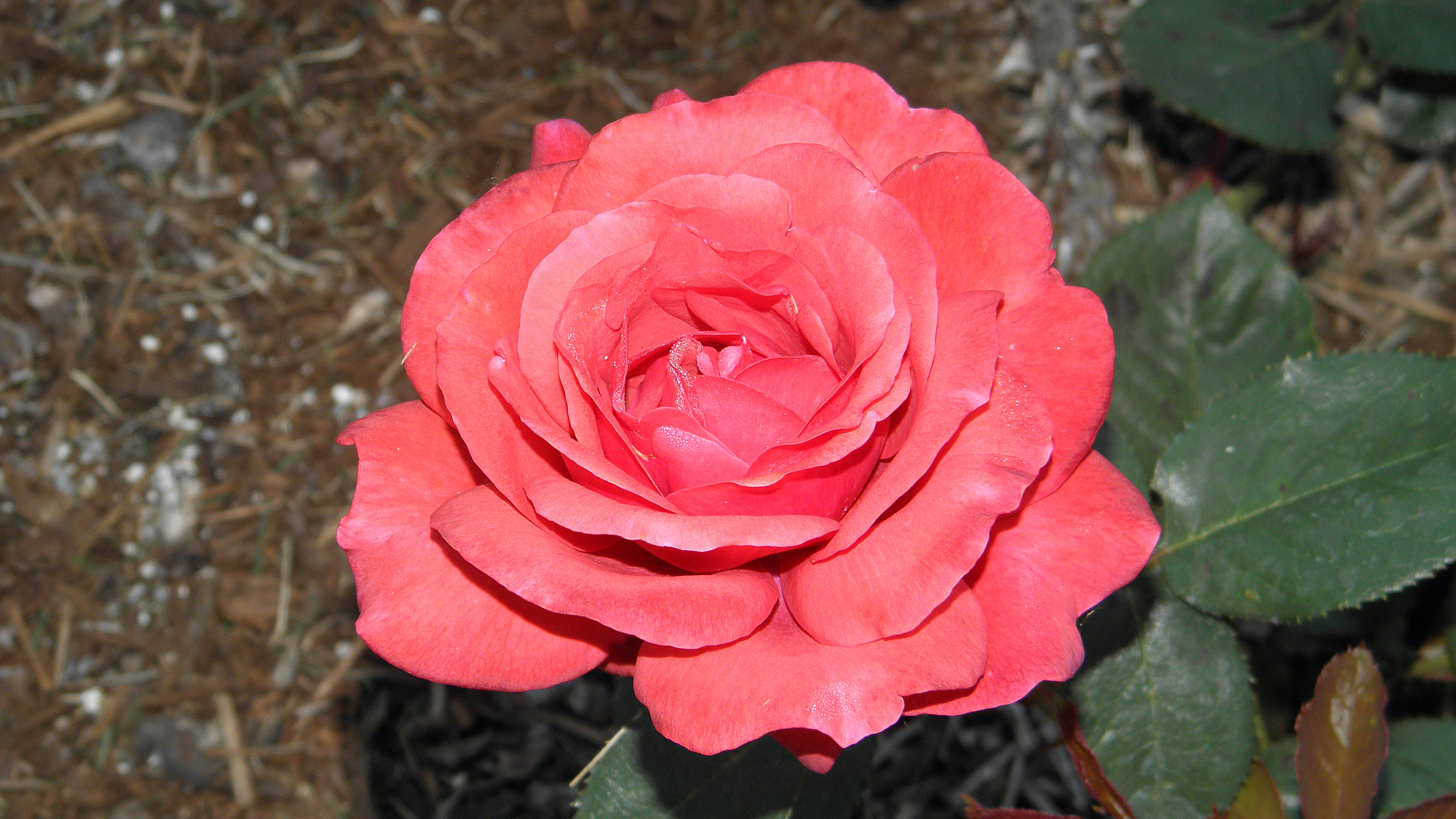 Floribunda Rose 'Heat Wave'; Bush's Pasture Park Rose Garden, Salem, Or. 97301